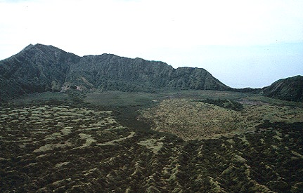 View across one of the calderas of Anatahan Island, Northern Mariana Islands